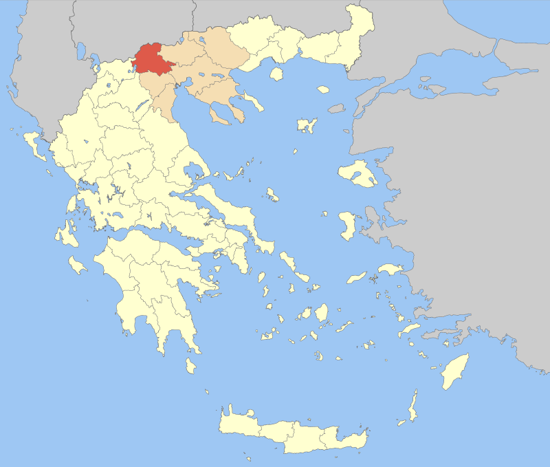 Locator map of Pella prefecture (Νομός Πέλλας) in Greece